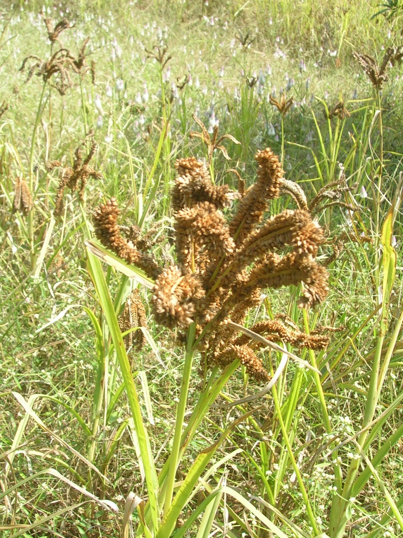 Ragi, Eleusine coracana